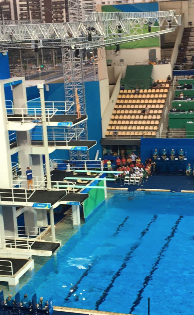 Diving Tom Daley